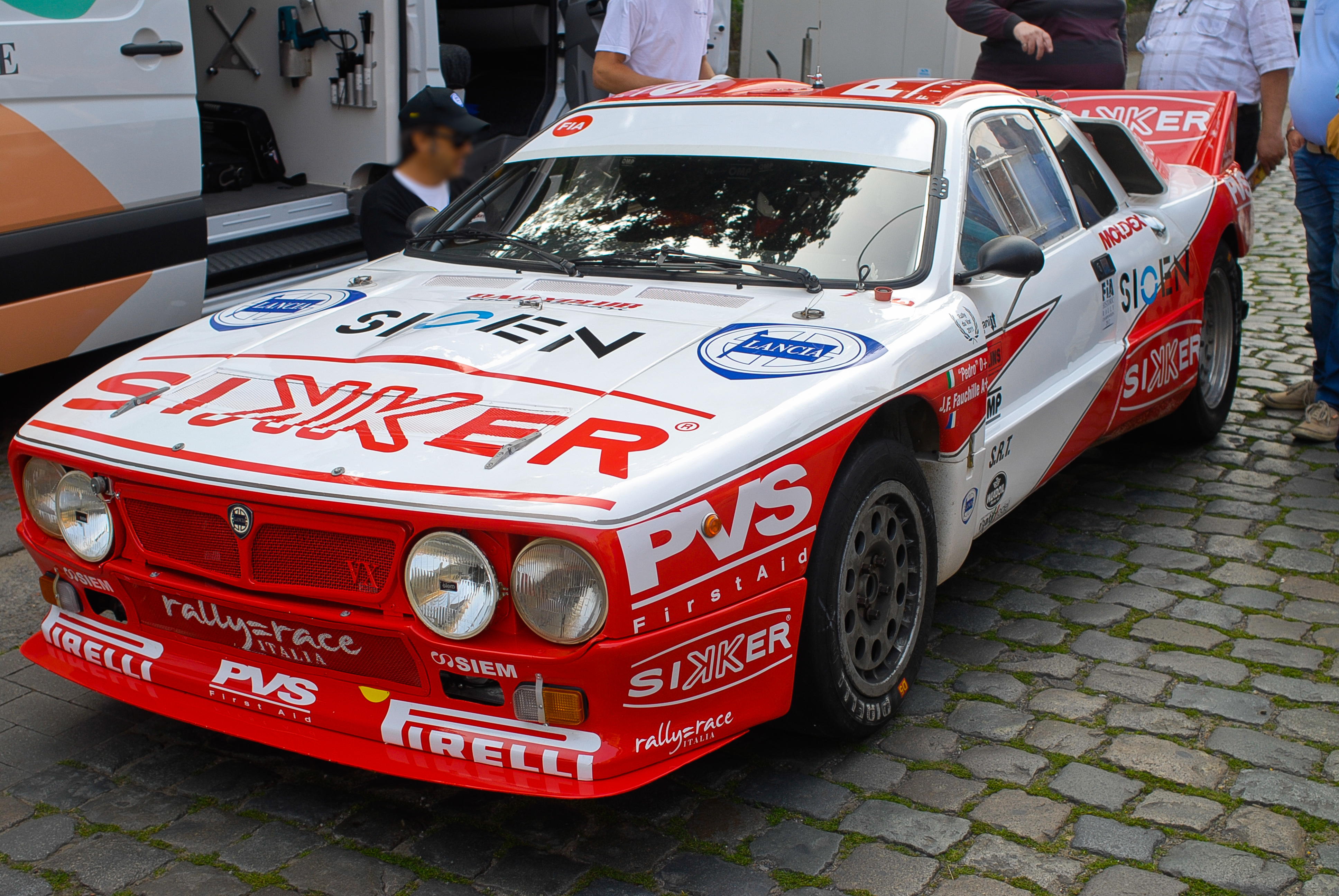 Rally car at the 2012 Ypres Historics Rally